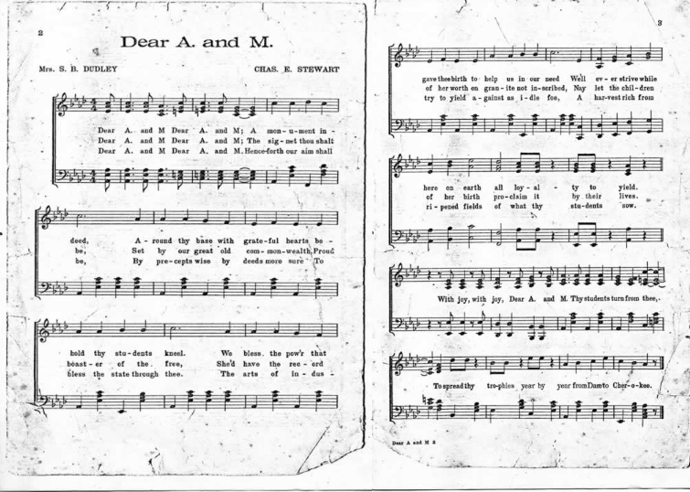 The sheet music to "Dear A&T," the alma mater of North Carolina Agricultural and Technical State University